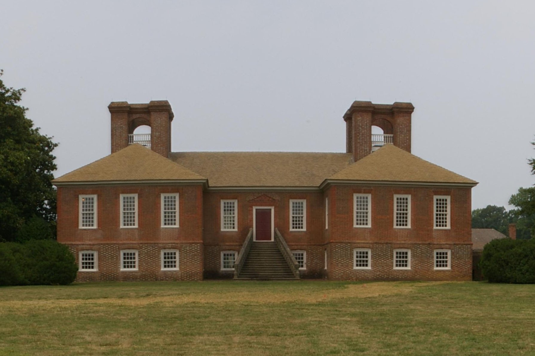 Cropped version of File:StratfordHallPlantationPano.jpg, which is a panoramic image made from five photos taken Aug 2007 at Stratford Hall Plantation and merged together with AutoStitch.